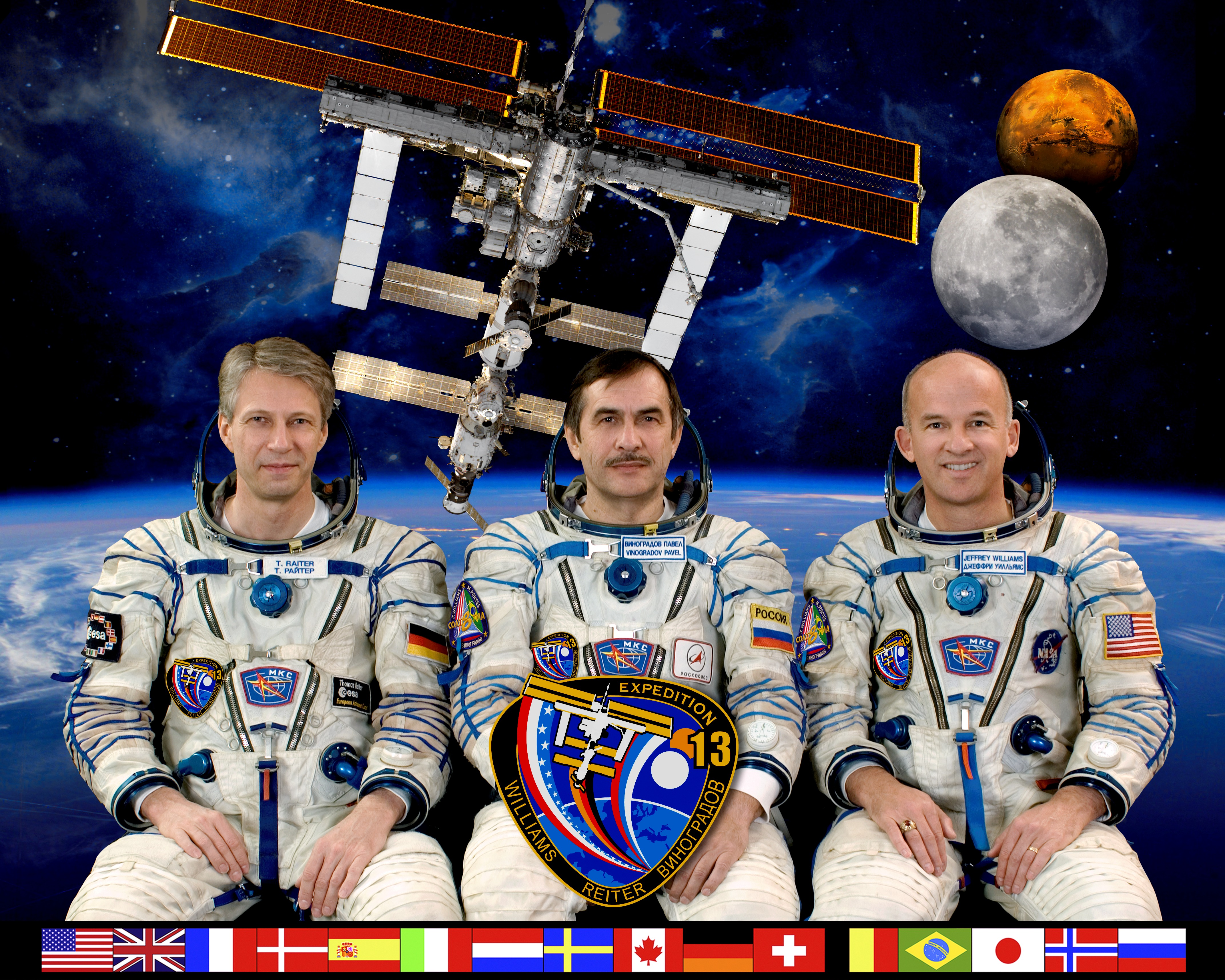 From the left: Thomas Reiter, German ESA astronaut and flight engineer, Cosmonaut Pavel V. Vinogradov, mission commander representing Russia's Federal Space Agency and astronaut Jeffrey N. Williams, NASA space station science officer and flight engineer, crew of ISS Expedition 13 as of July 4, 2006.